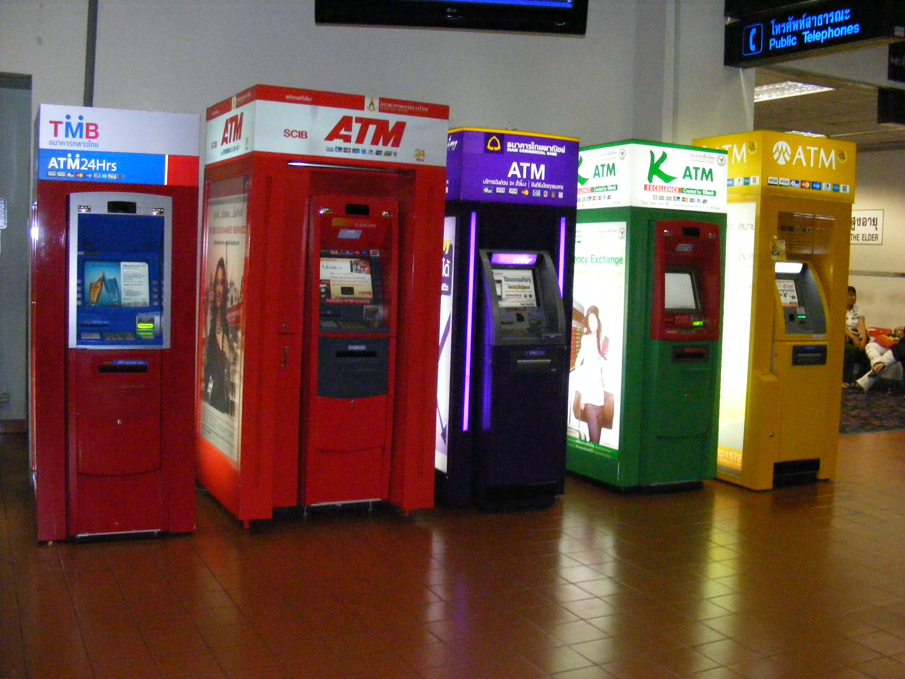 Some automatic teller machines inside Don Mueang Airport (domestic terminal), near Bangkok, Thailand.